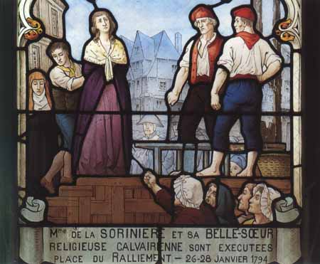 Stained glass window of the Saint-Pierre church in Chemillé, representing the execution of Rosalie du Verdier de la Sorinière and her sisterin law in Angers on January 26-28, 1794